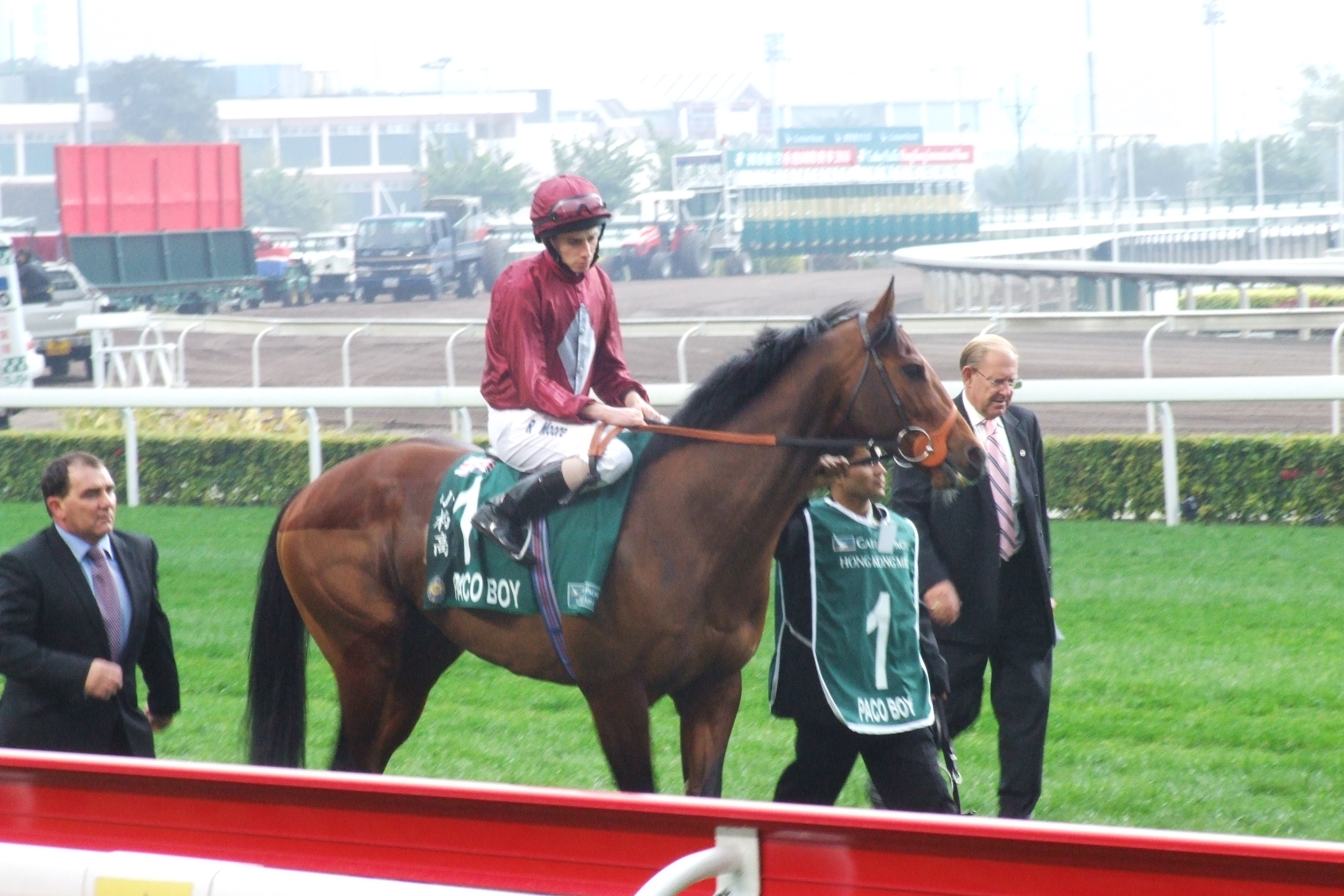 Paco Boy, Mutliple G1 winner